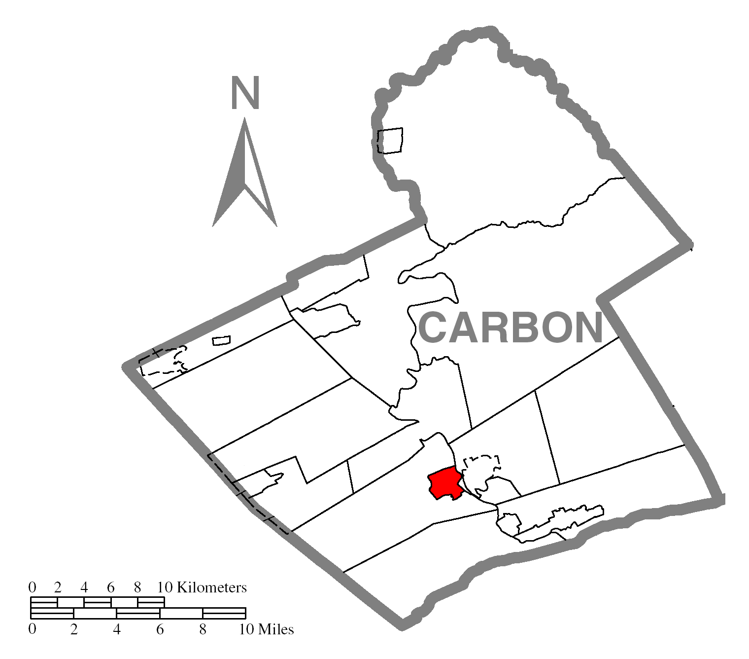 A map of Carbon County showing Lehighton, Pennsylvania (alternate) highlighted on the map.